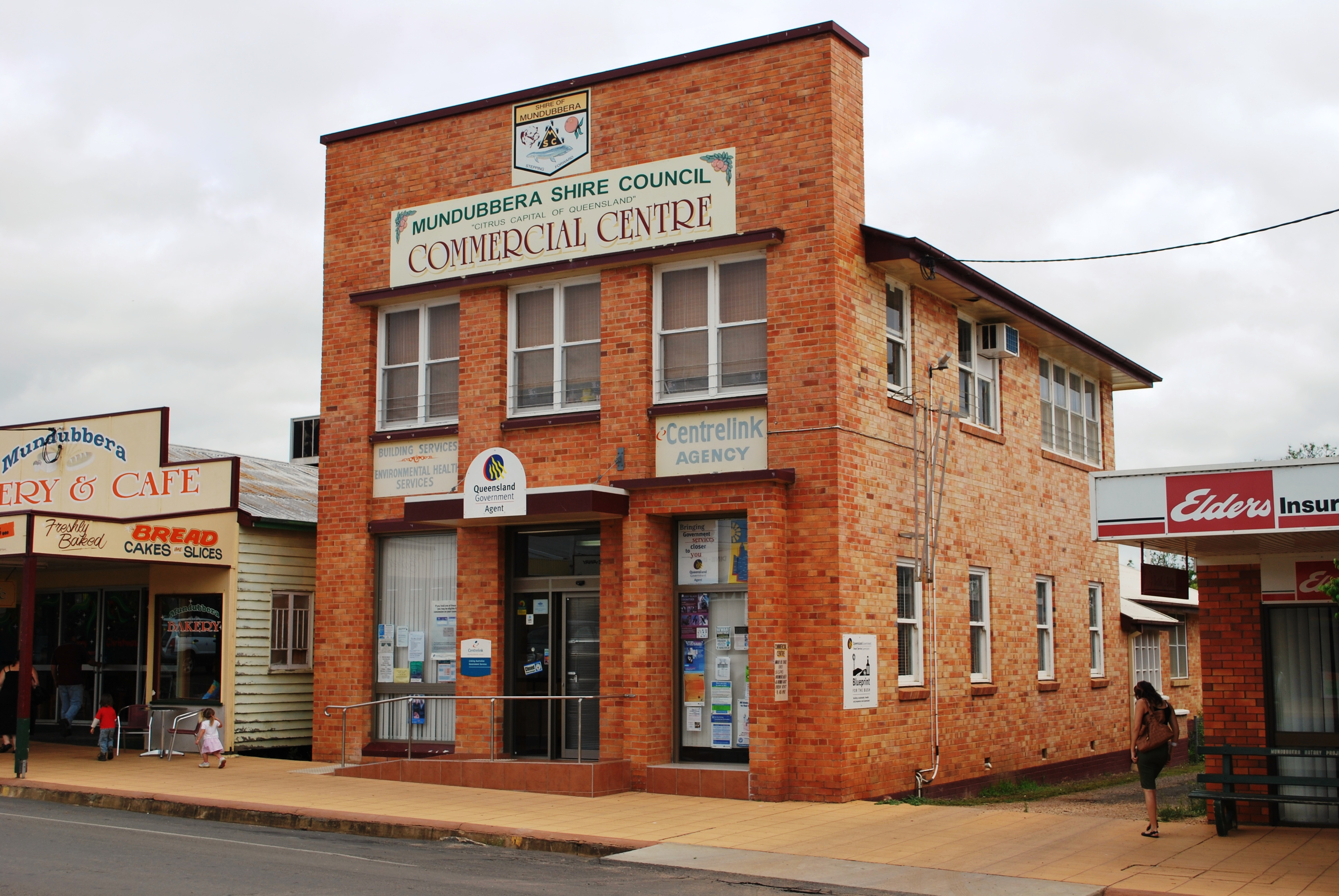 Former Westpac bank, now a service centre for the North Burnett Regional Council at Mundubbera, Queensland